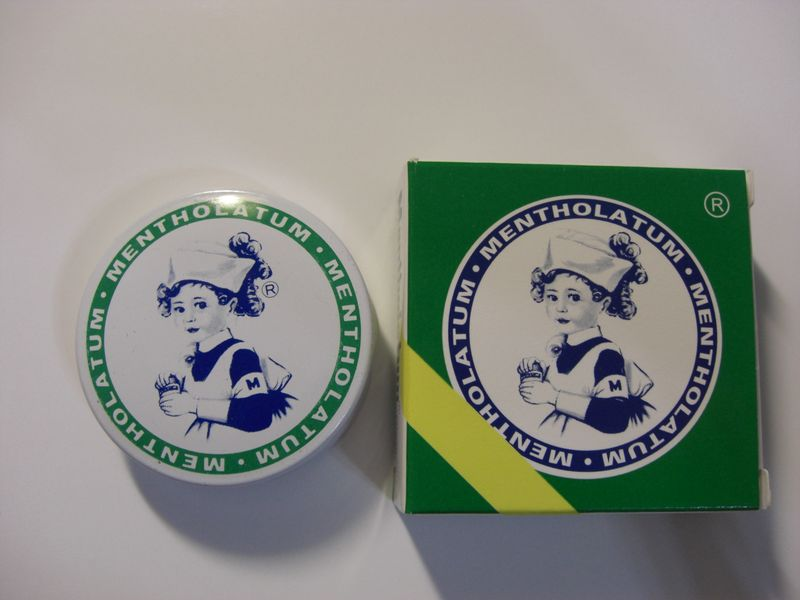 Mentholatum ointment